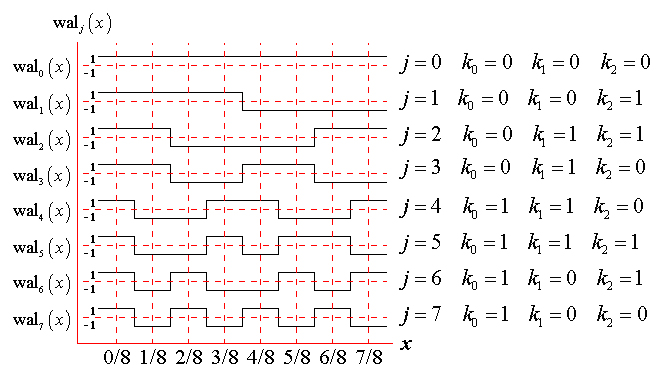 First Walsh functions, where j is the function number, km are the bits of the function number j but in Gray code, the x is the dyadic variable.